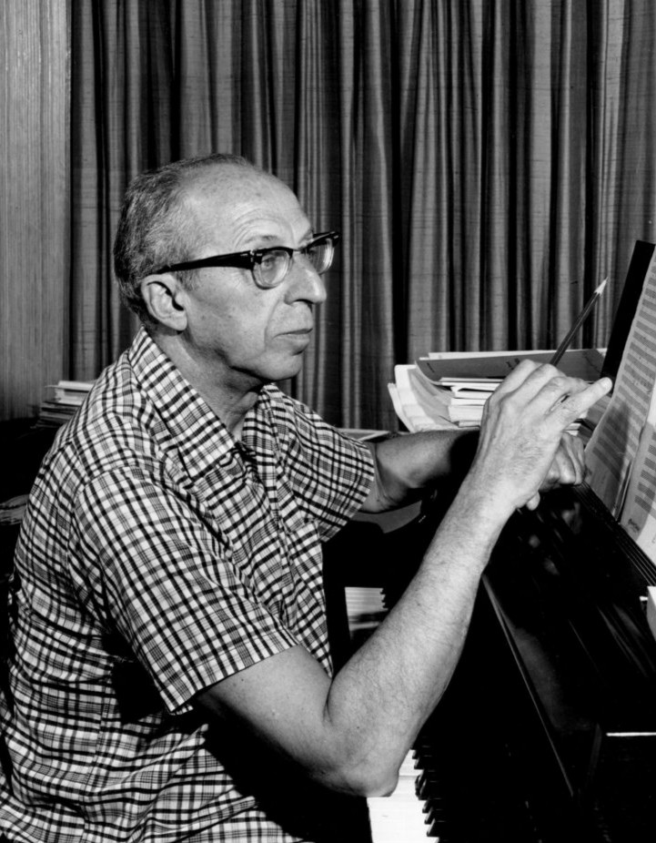 Photo of composer Aaron Copland from a 1962 television special.